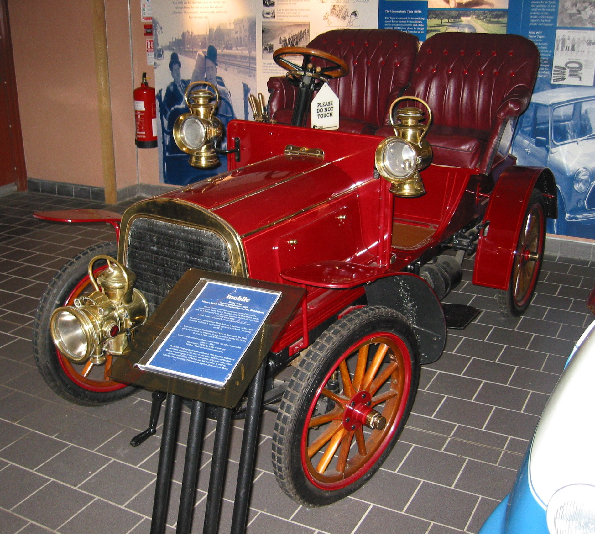 Mobile 1904 automobile